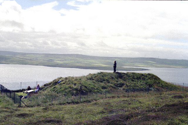 Knowe of Yarso. Another long cairn, with many internal chambers. High on the hillside above Frotoft, with splendid views across Eynhallow Sound to mainland Orkney. The tip of land just above the right-hand end of the cairn in this picture is Aikerness in Evie, on which sits the Broch of Gurness. Looking south west.